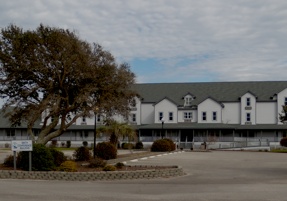 Photo of NC Baptist Assembly Conference Facility